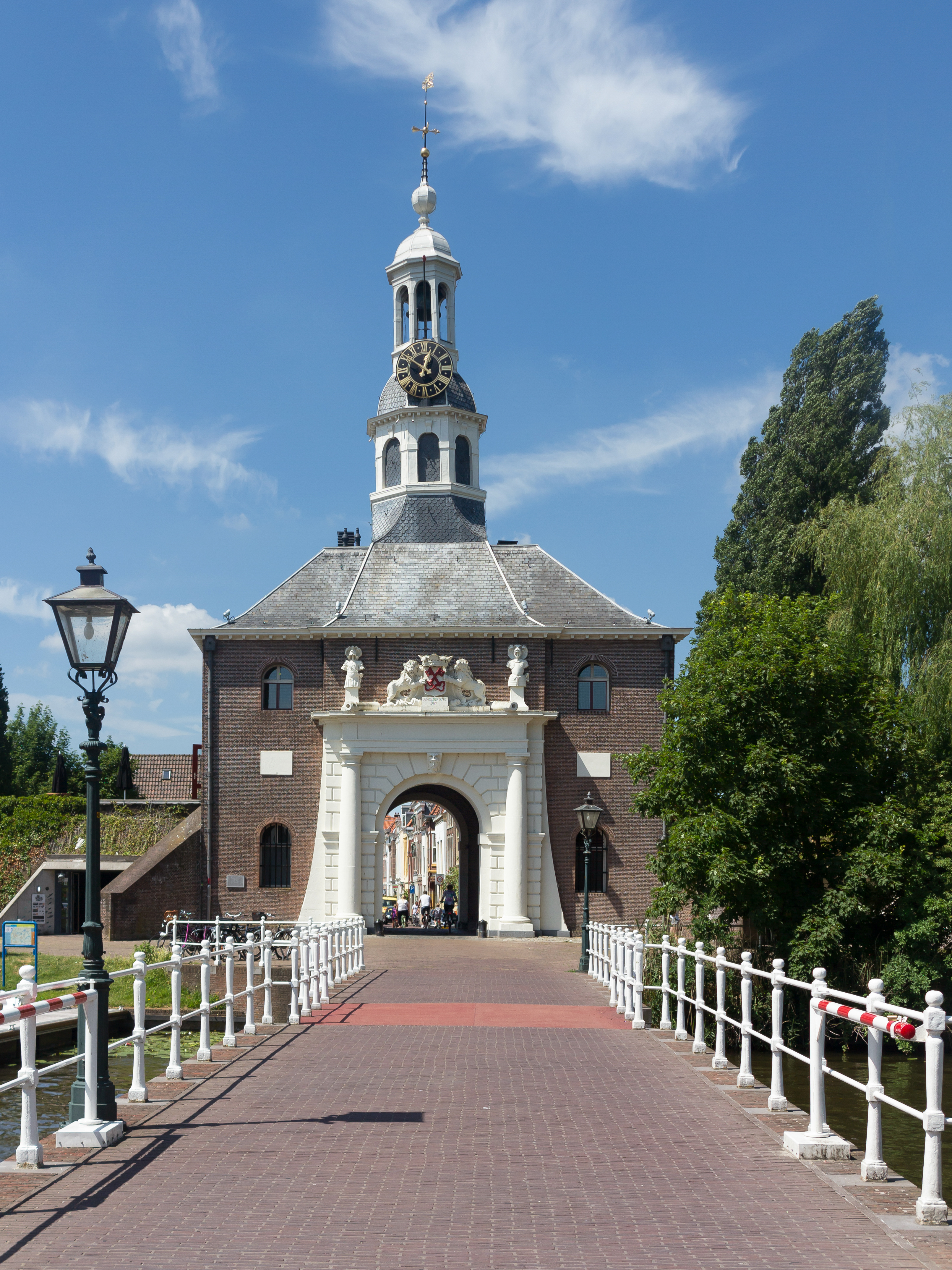 Leiden, town gate: de Zijlpoort